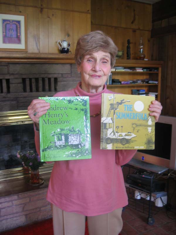 Photo of Doris Burn, children's book author of The Summerfolk and Andrew Henry's Meadow